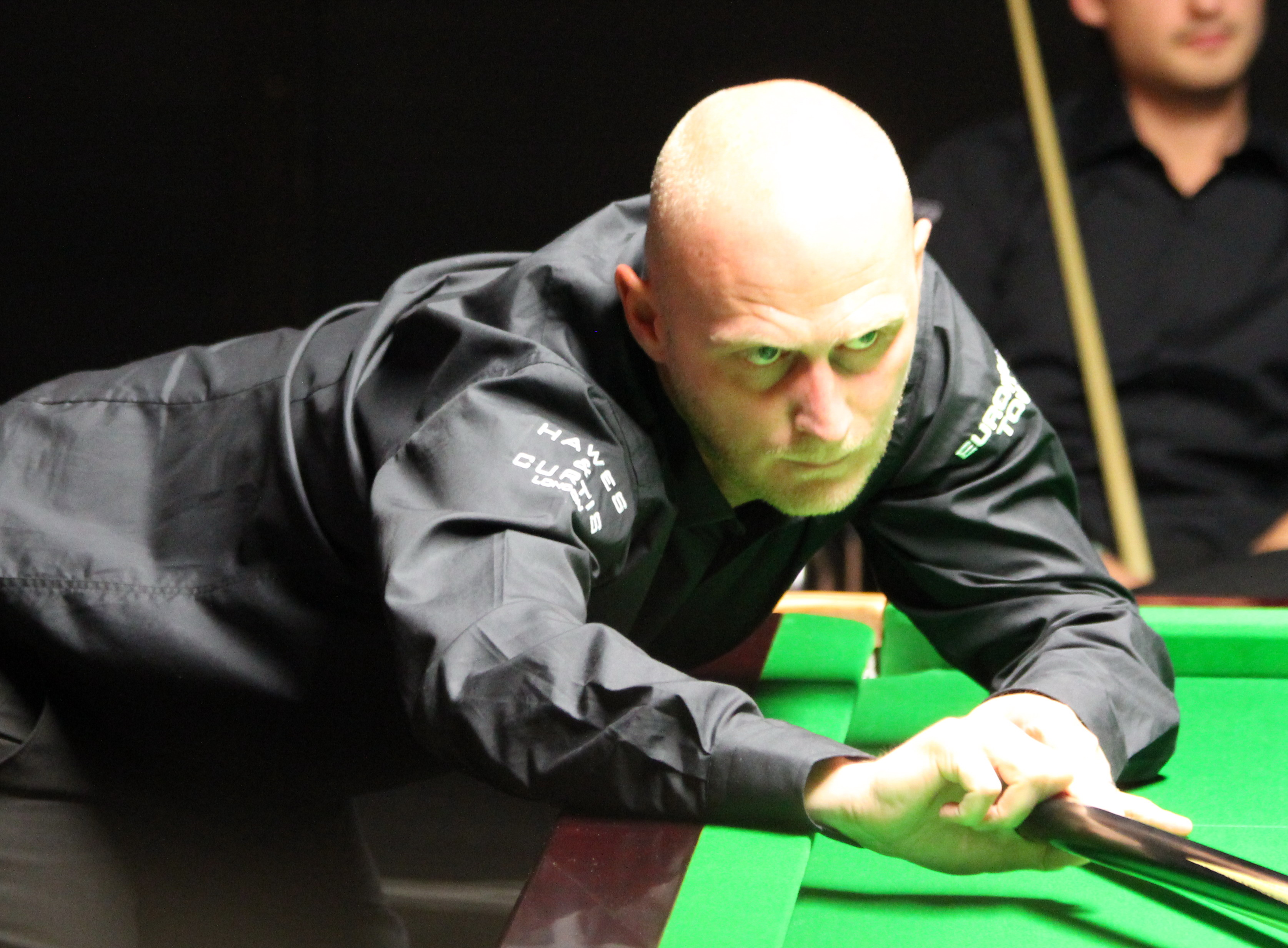 Craig Steadman beim Paul Hunter Classic 2014